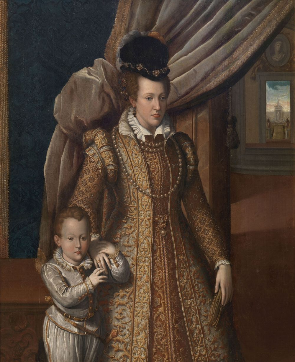 Posthumous portrait of Joanna of Austria, Grand Duchess of Tuscany, and her son don Filippino de' Medici.